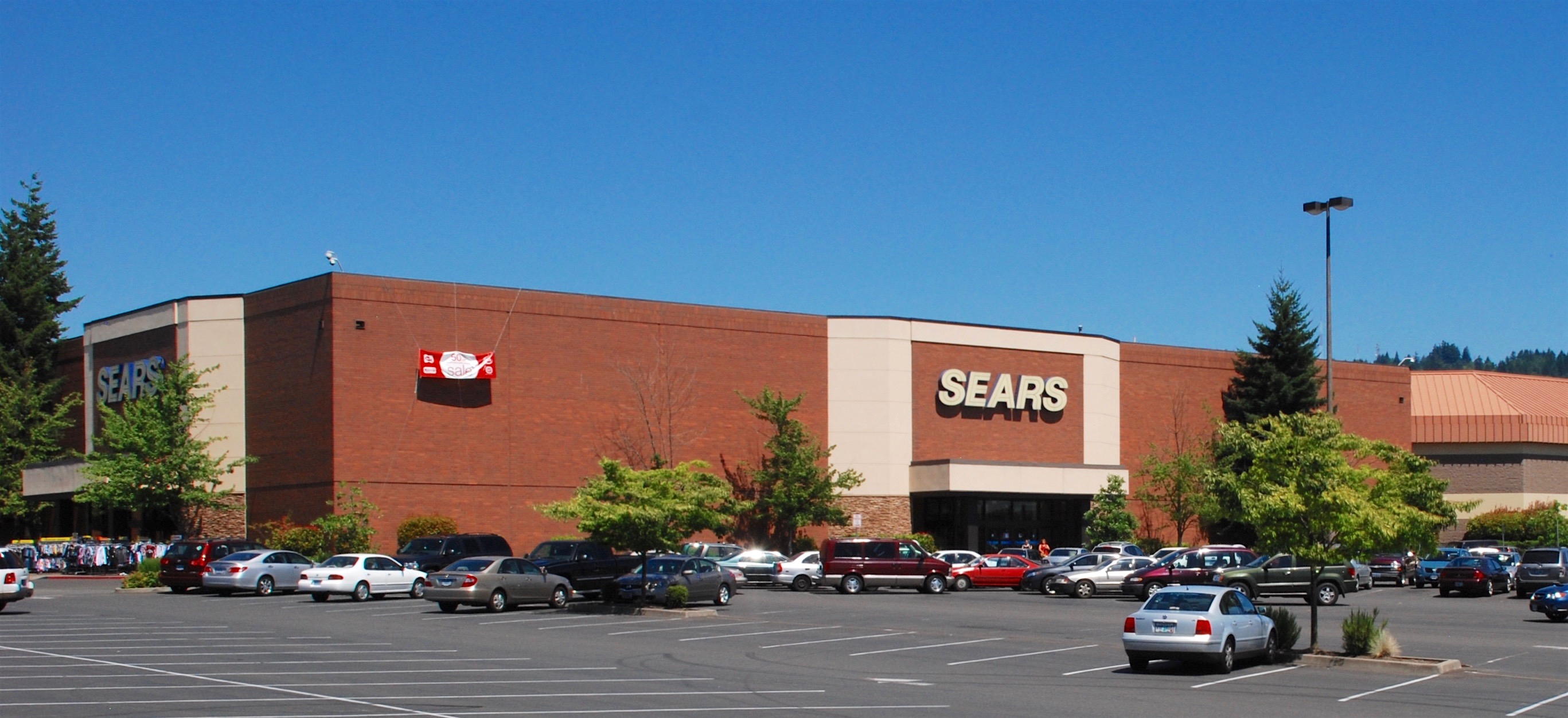 The Sears store at Clackamas Town Center, a large shopping mall in the unincorporated Clackamas area that is in within the Portland, Oregon, metropolitan area.